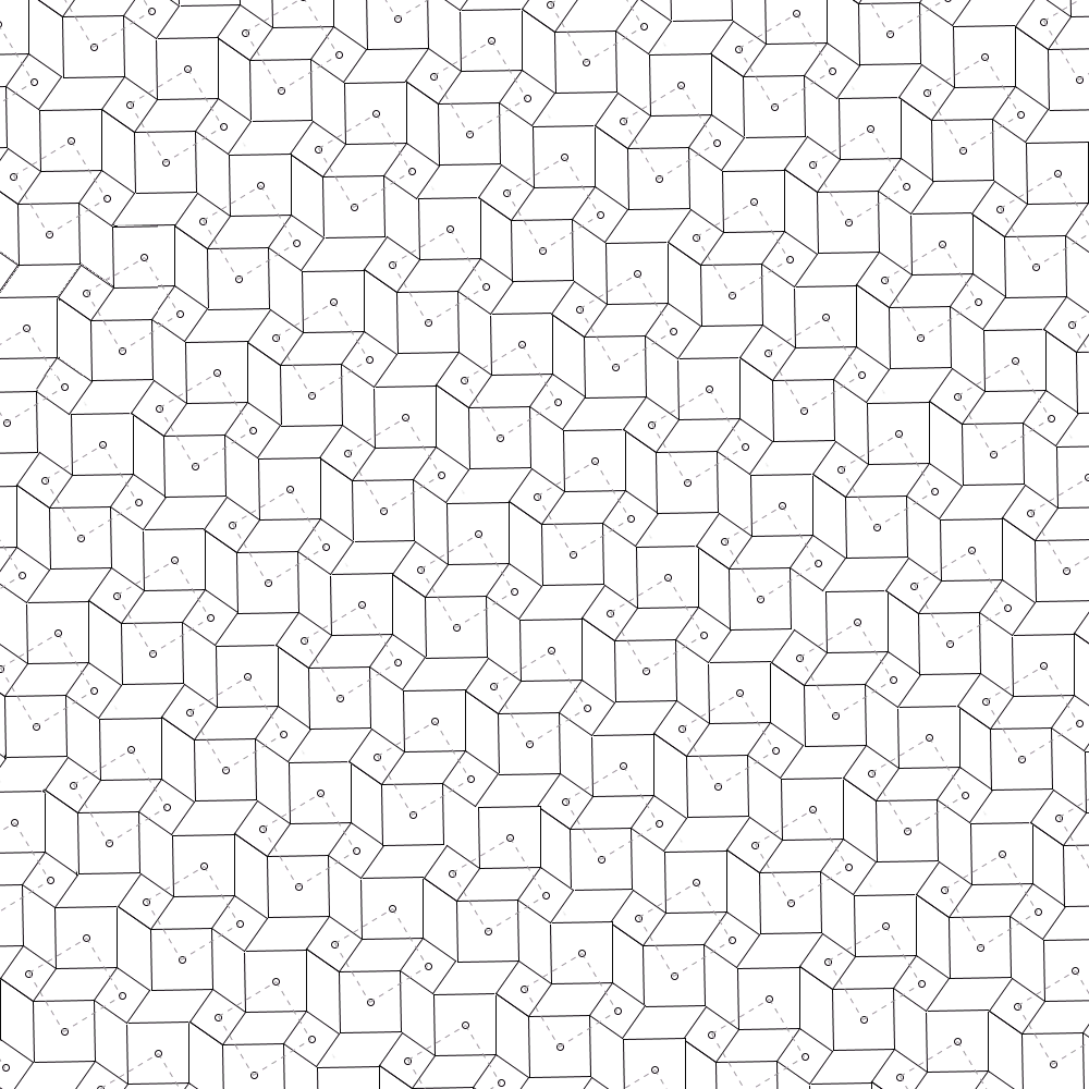 This is a tiling pattern made of parallelograms and squares, based on Thébault's problem I. I made it with gimp 2.8.